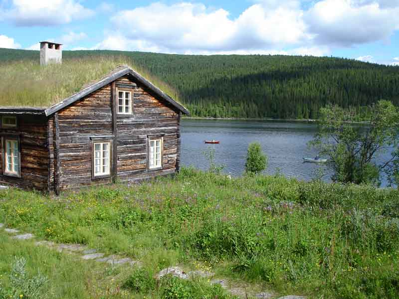 View from Fatmomakke towards lake Kultsjön in July 2008. The house in the foreground is the so called Sheriff's cottage.